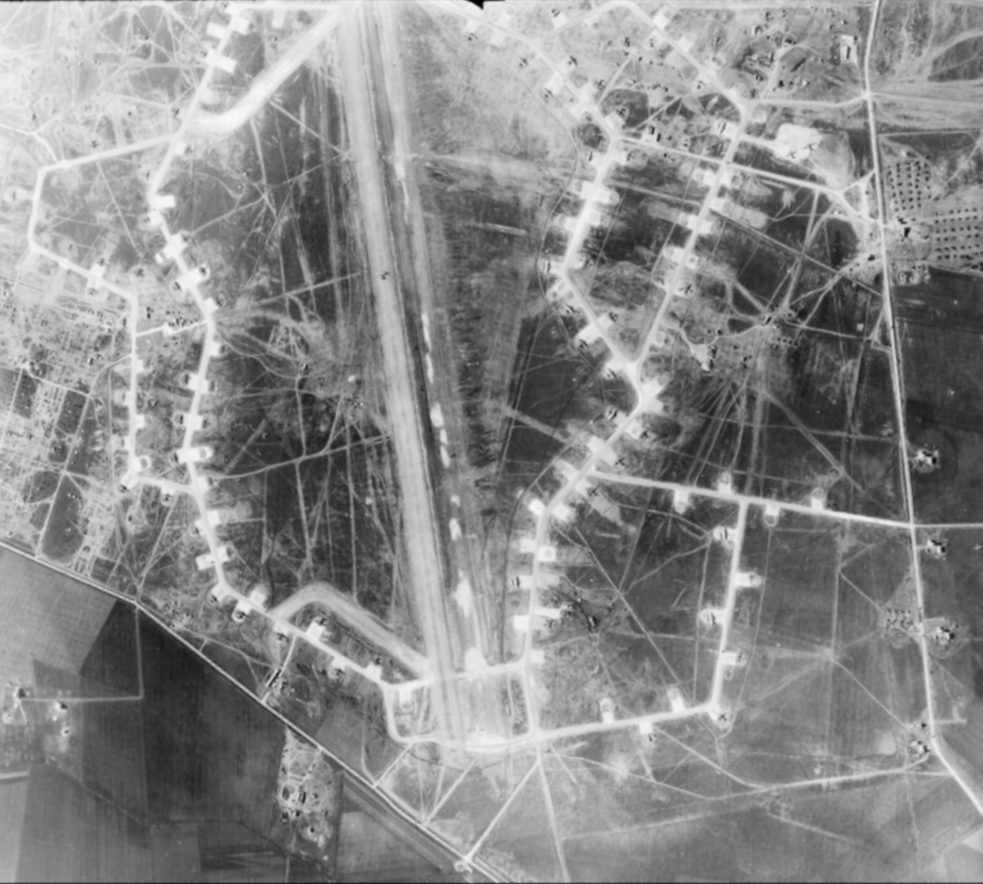 Tortoella Airfield, Italy (Rotated so north is at top)